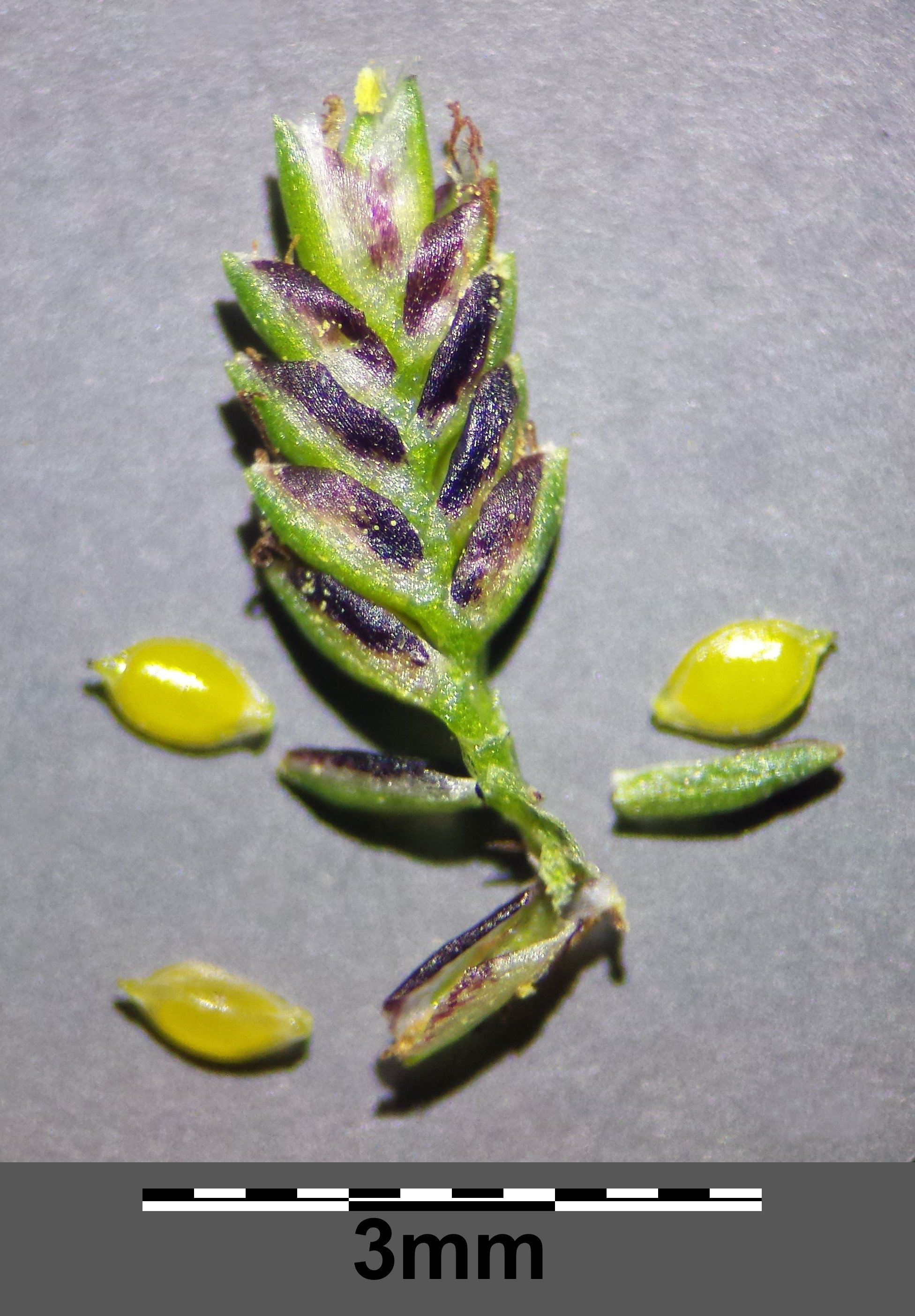 Spikelet with fruits Taxonym: Cyperus fuscus ss Fischer et al. EfÖLS 2008 ISBN 978-3-85474-187-9 Location: pond near Goldenes Bründl, Rohrwald, district Korneuburg, Lower Austria - ca. 225 m a.s.l. Habitat: shore of a pond